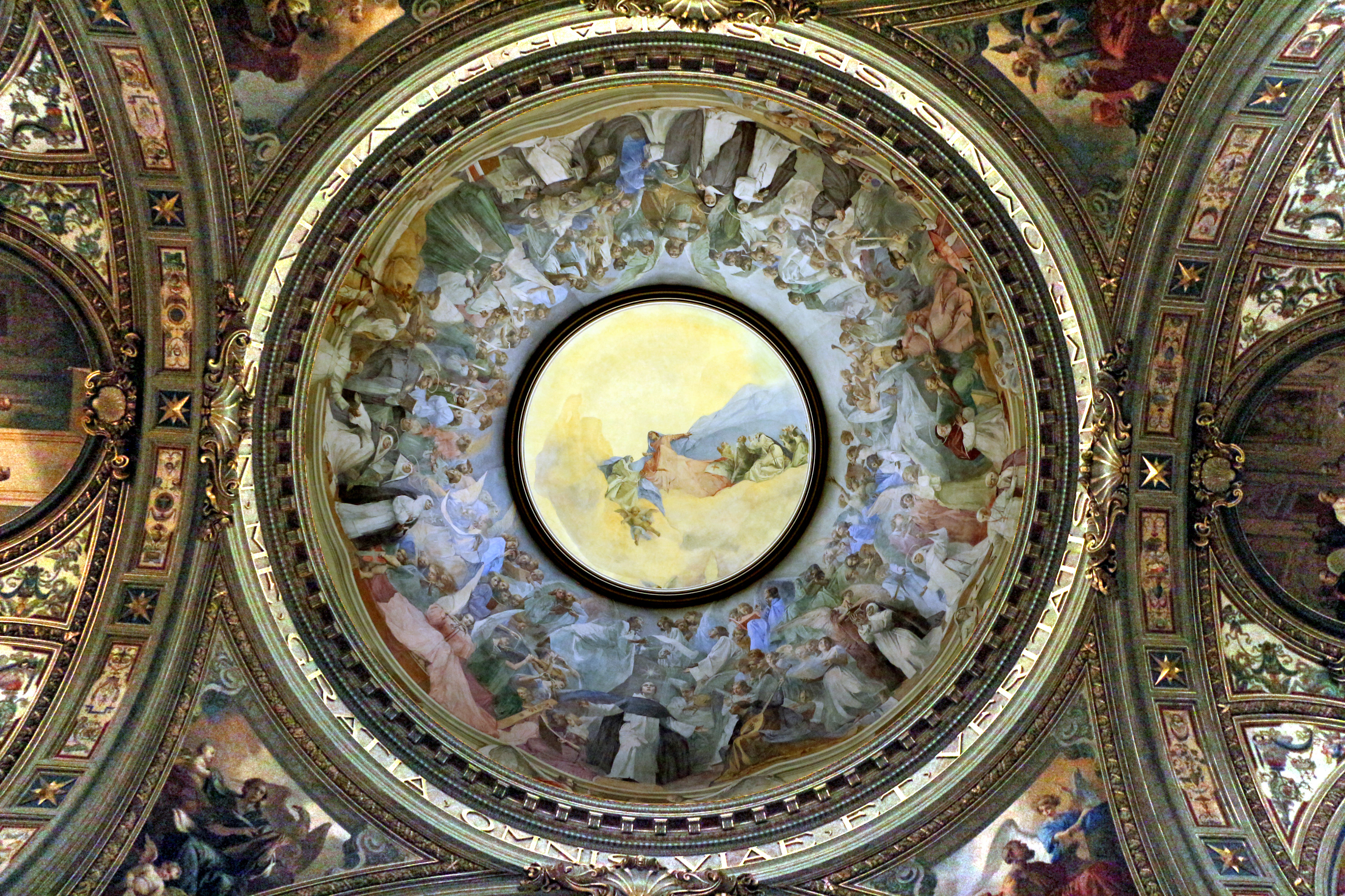 Beata Vergine del Rosario (Pompei) - Interior